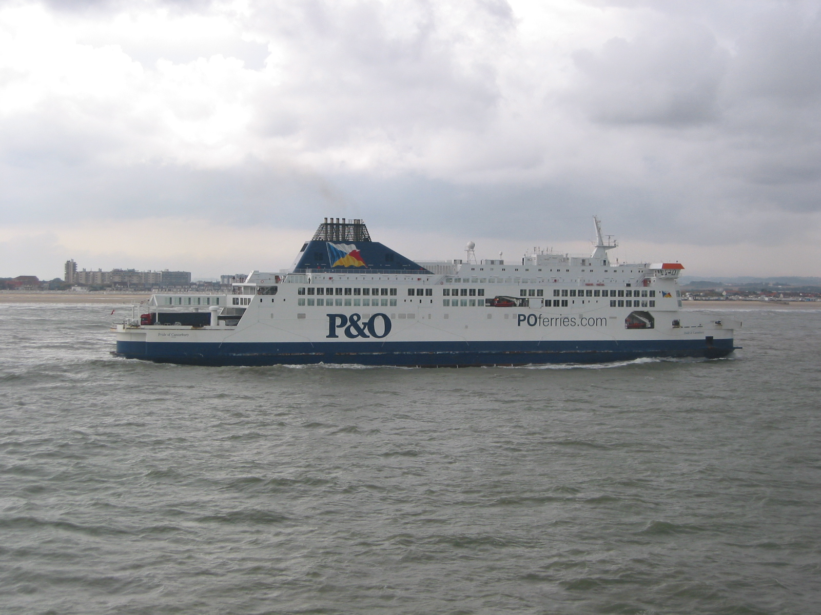 P&O Ferry Pride of Canterbury on route Dover - Calais IMO Number: 9007295 MMSI Number: 232001060 Callsign: MPQZ6 Length: 180 m Beam: 28 m